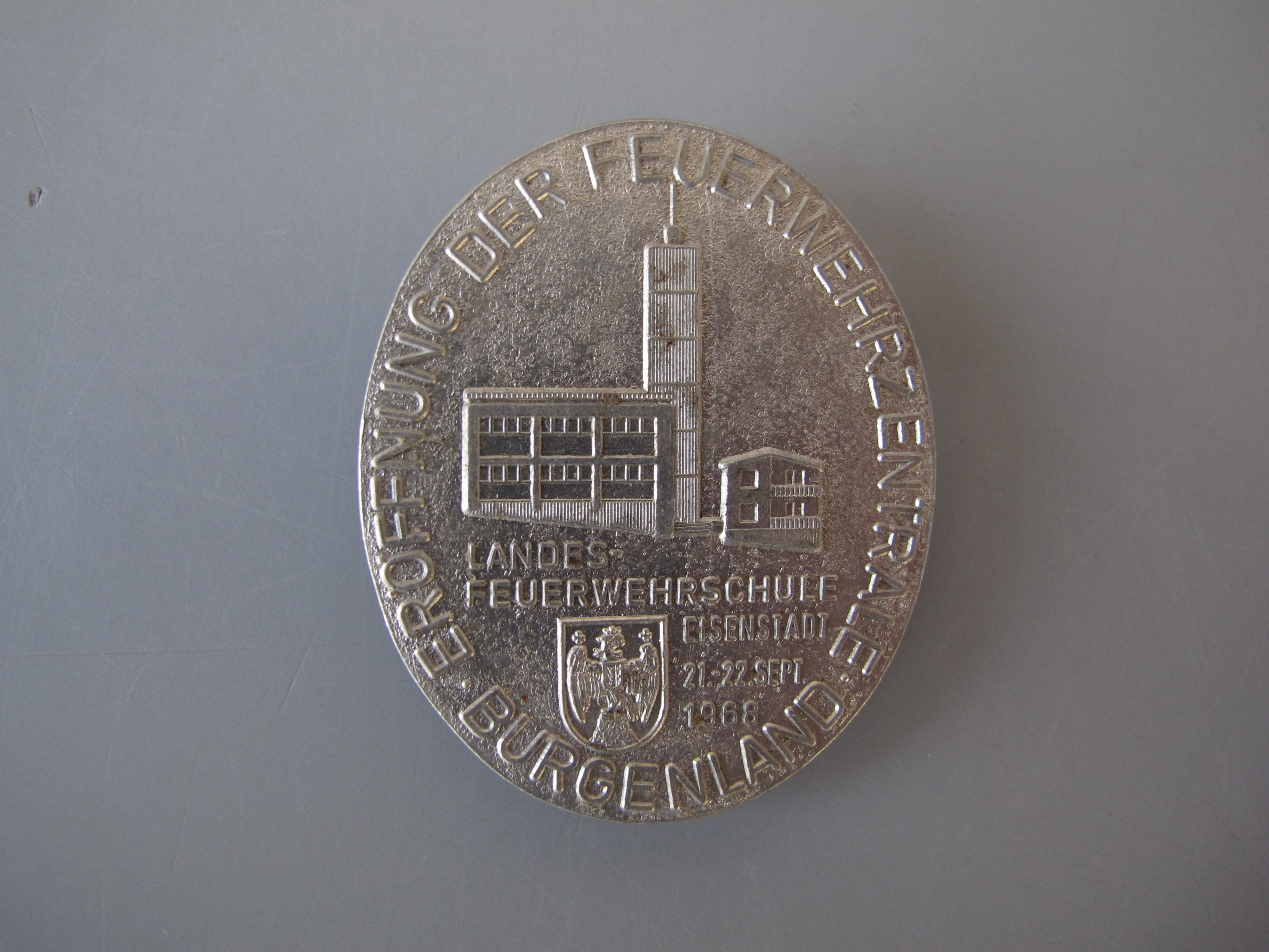 Firebrigarde Burgenland